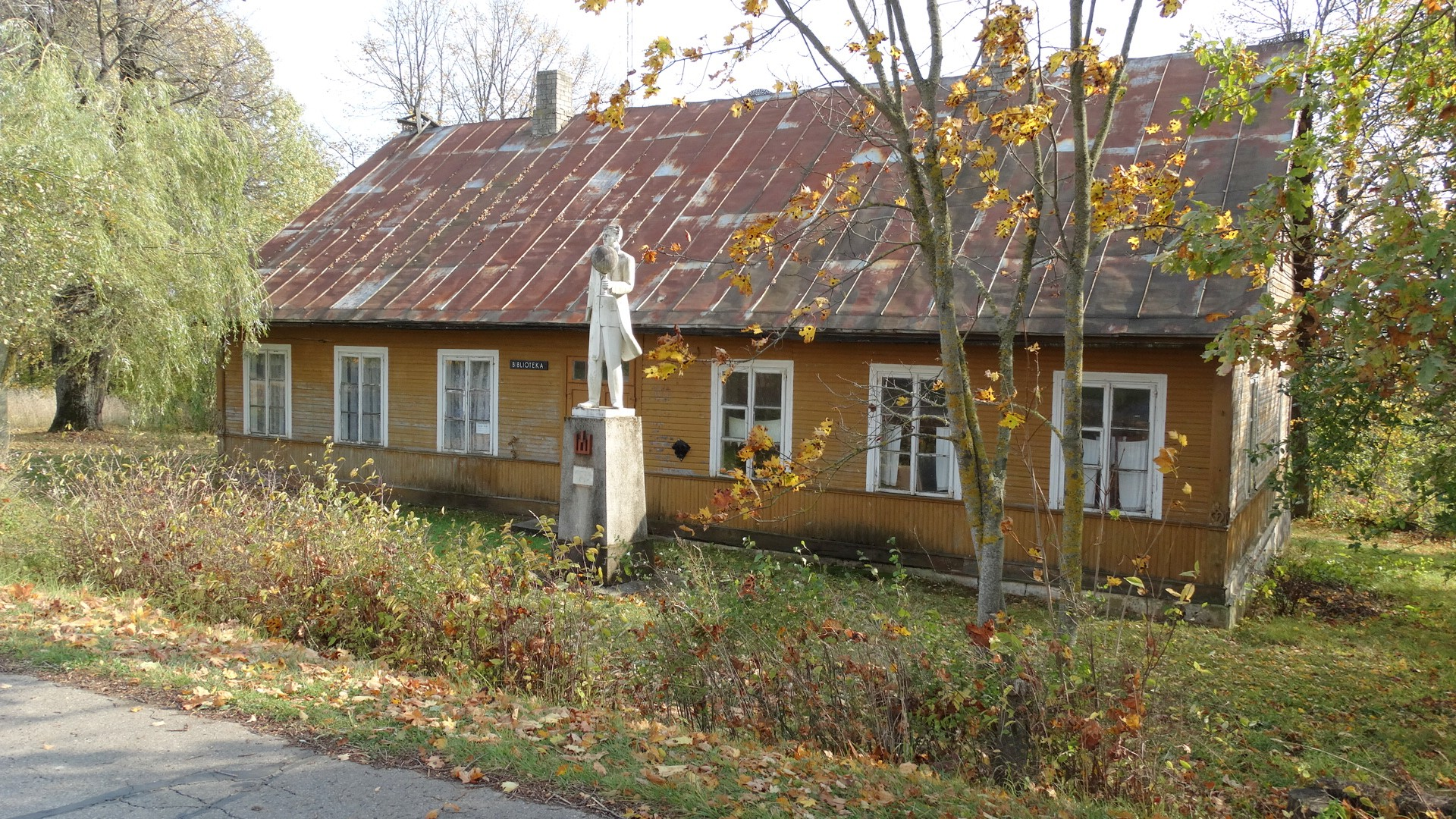 Žiūronys, Prienai district, Lithuania